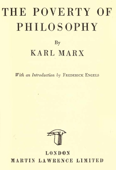 Title: The poverty of philosophy Creator: Marx, Karl, 1818-1883 Date: n.d Publisher: London, M. Lawrence Language: eng